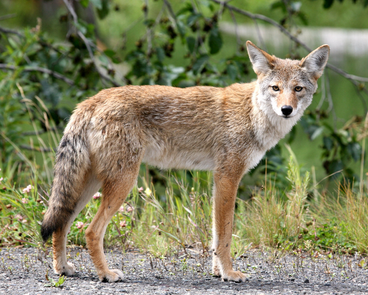 Coyote in Alaska.